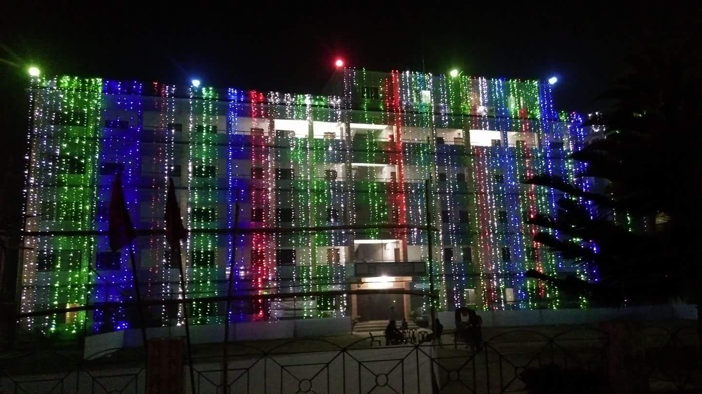 5 Year Celebration of PKFSC